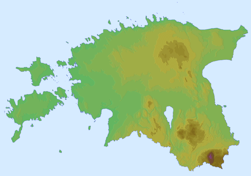 Relief map of Estonia.